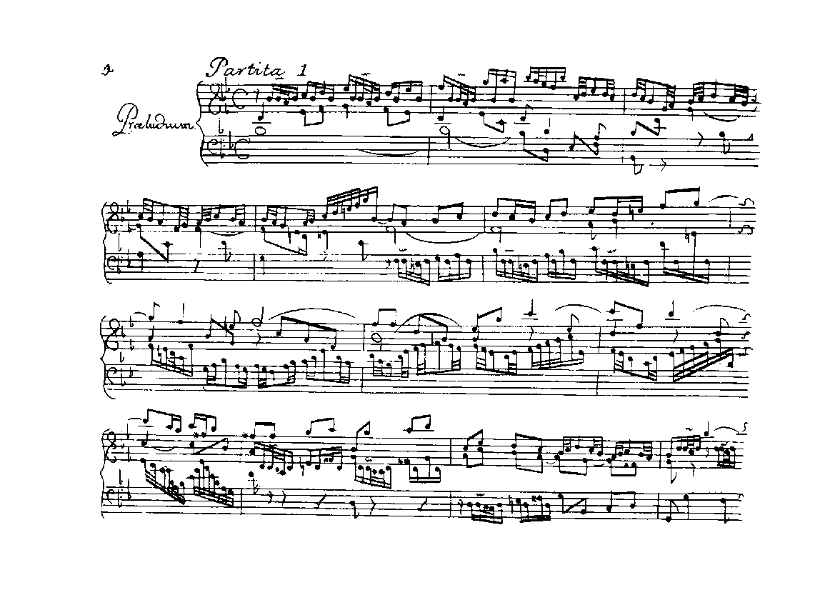 Opening Praeludium from Partita I, BWV 825, of Clavier-Übung I